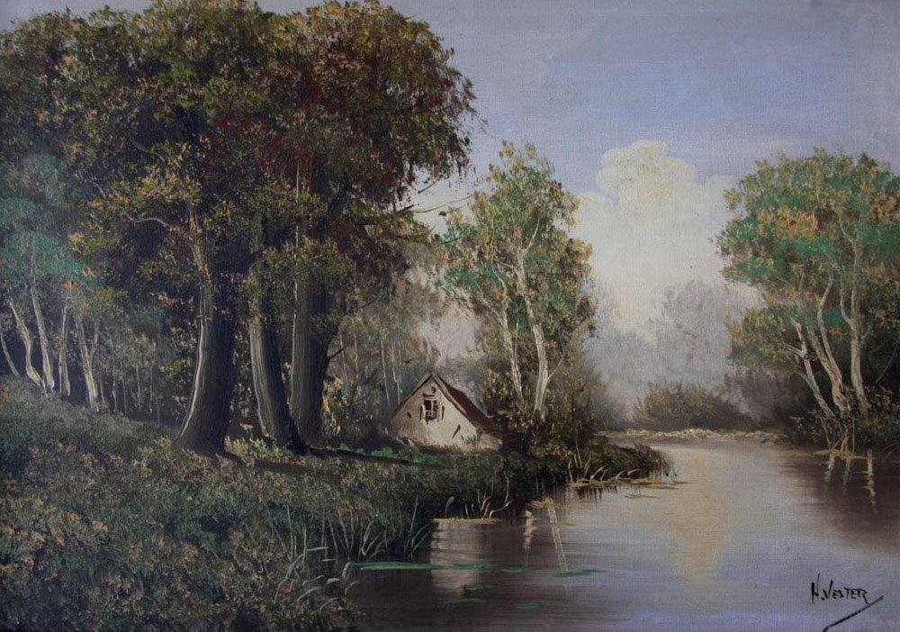 Landscape